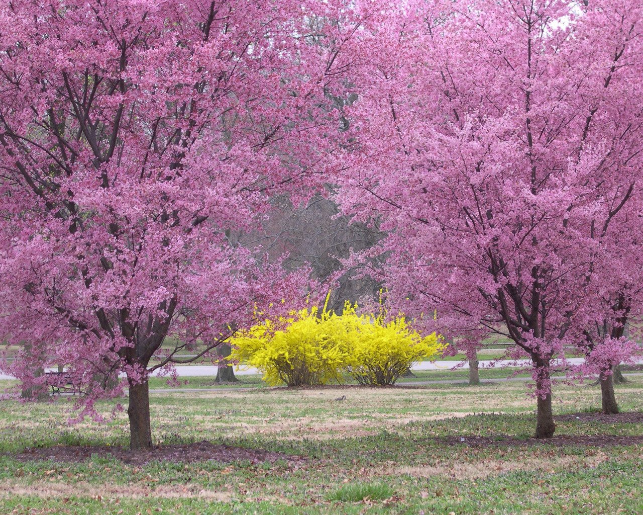 Photo taken in Tower Grove Park, St. Louis, MO, USA on March 25, 2004